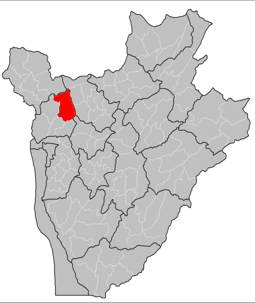 Commune of Musigat, Bubanza Province, Burundi